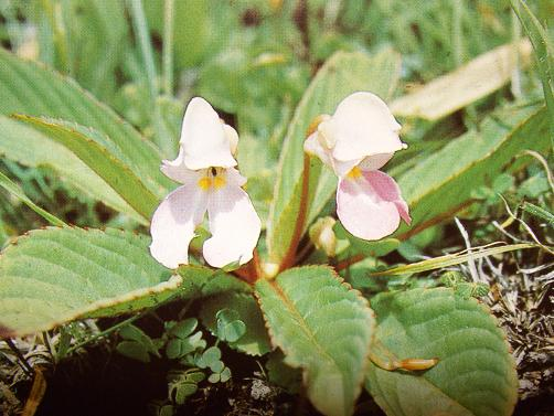 Egil J. Skarning